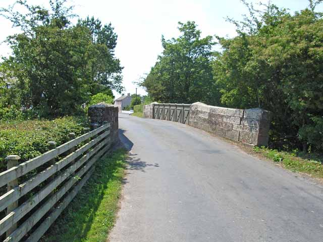 Old railway bridge at Glasson. The Carlisle to Silloth railway closed in 1964 as part of the Beeching cuts but the bridge remains!